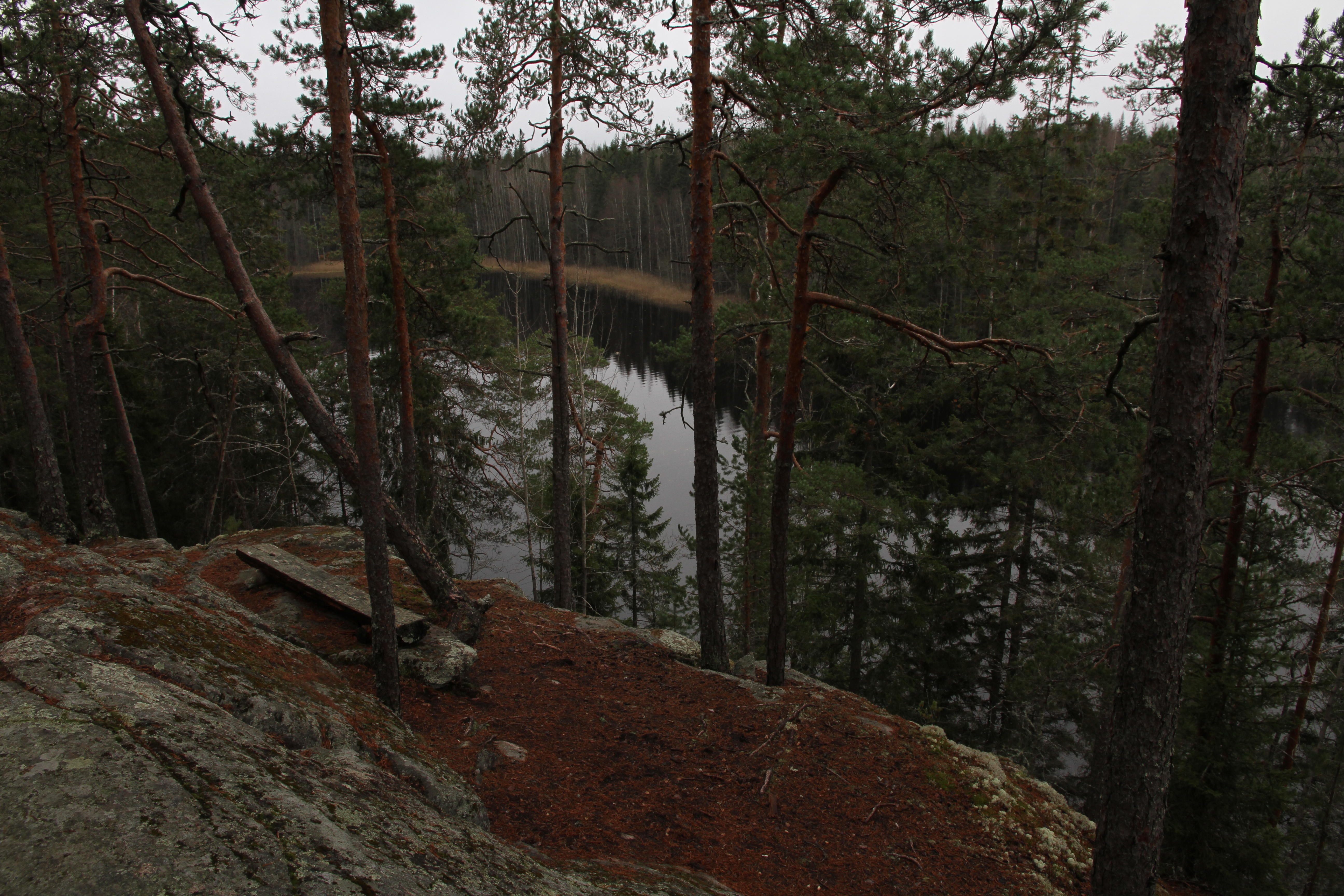 Liesjärvi National Park, Finland.